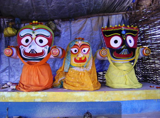 Kotsamalae is a famous Jagannath temple situated on the top of Kotsamalae Hill.